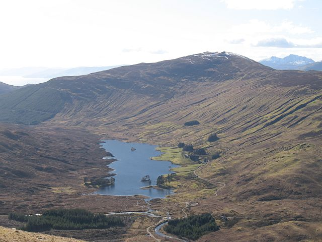 Lundavra At the centre of the photograph is the farm of Lundavra with Beinn na Gucaig beyond.